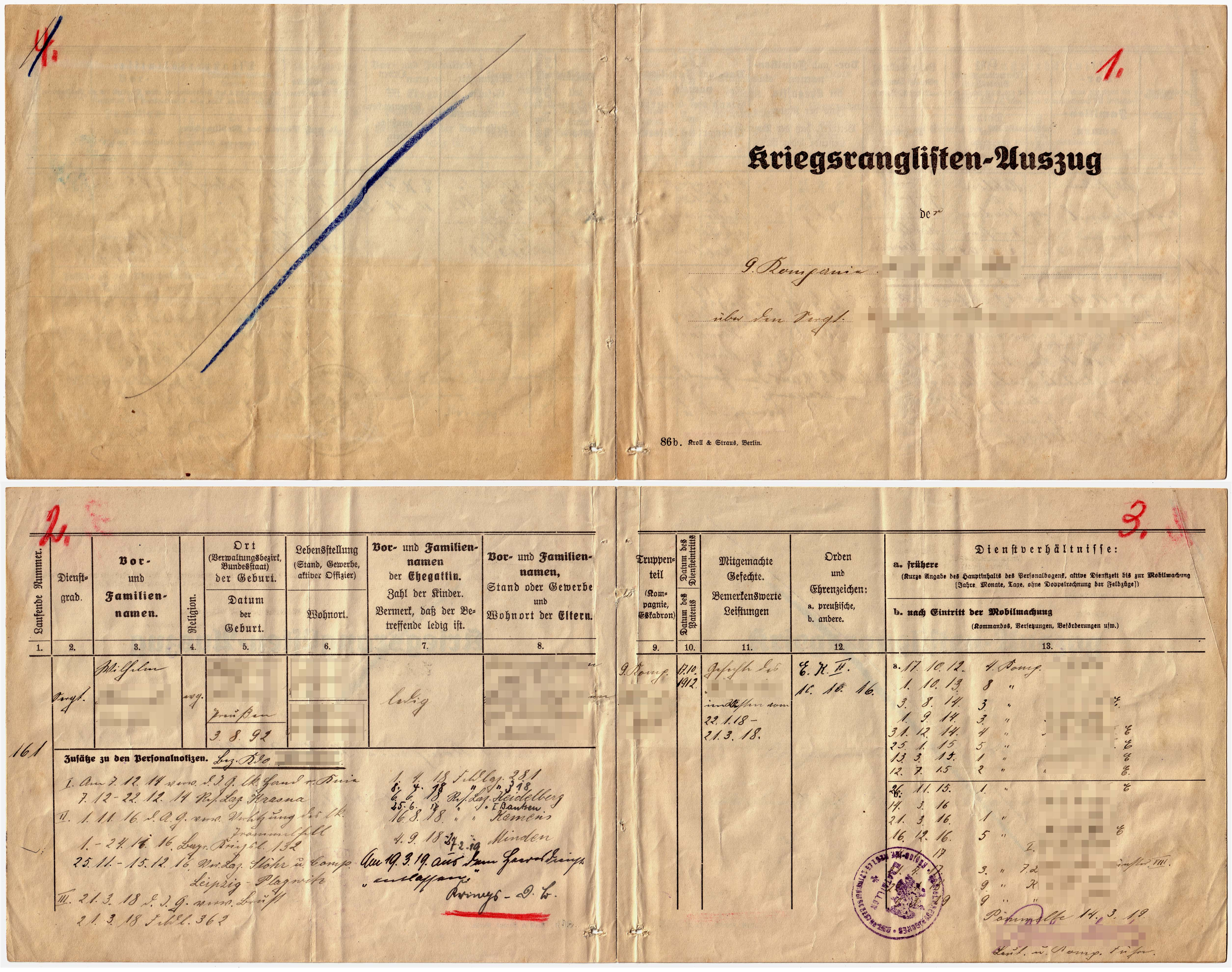 troop-register summary for First World War